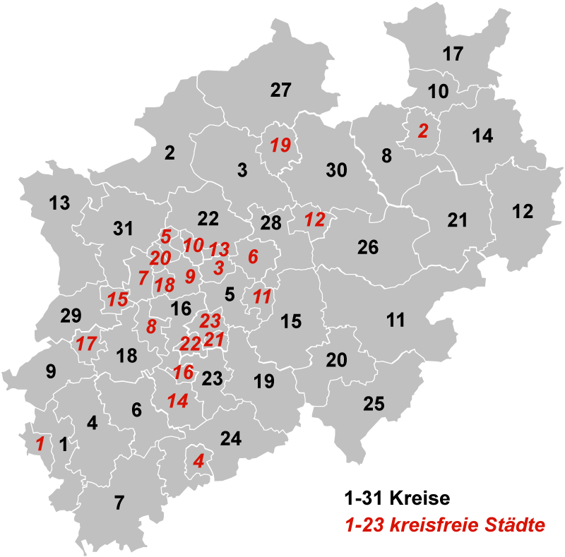 rural and urban districts in Germany